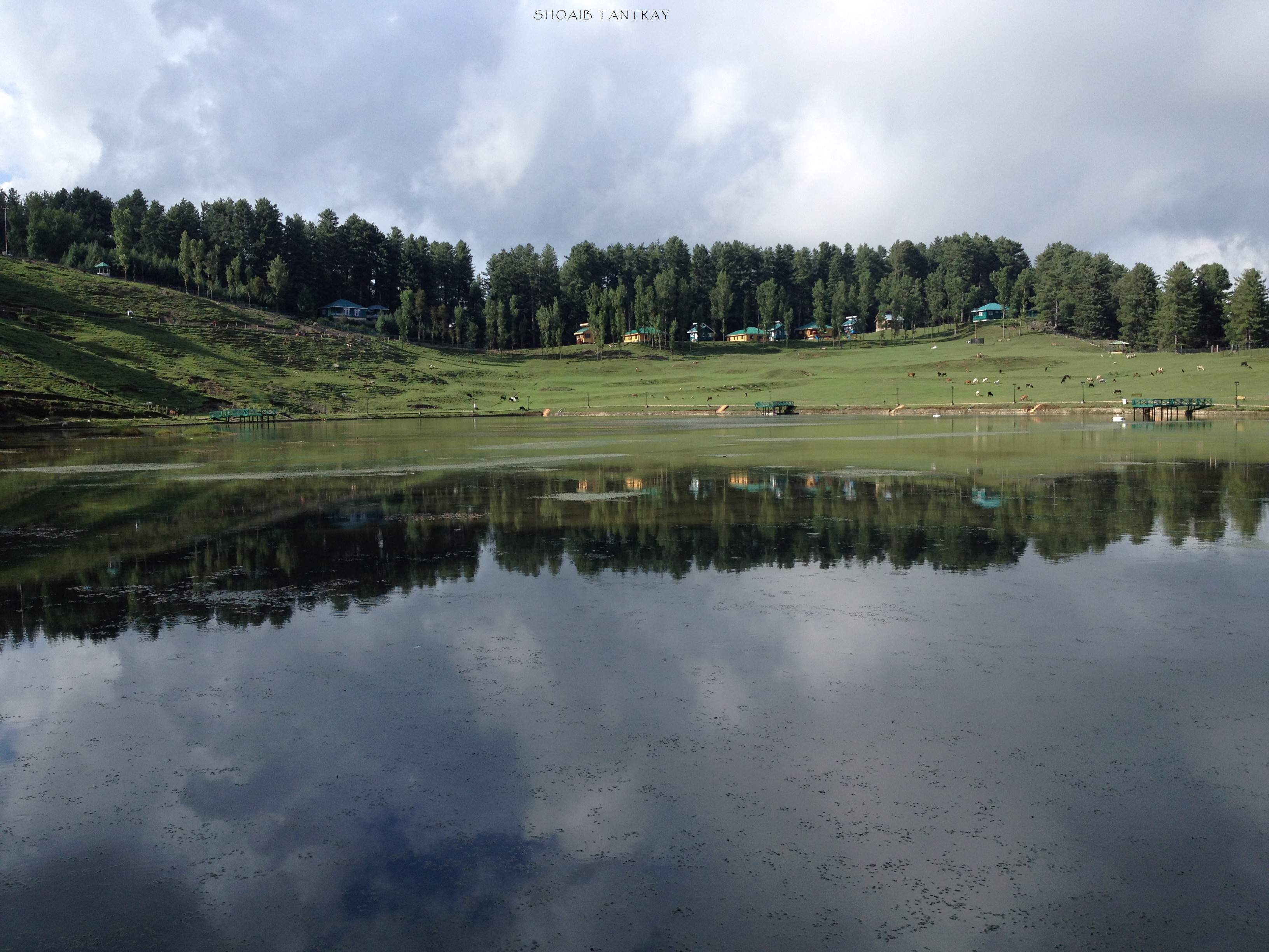 Sanasar lake